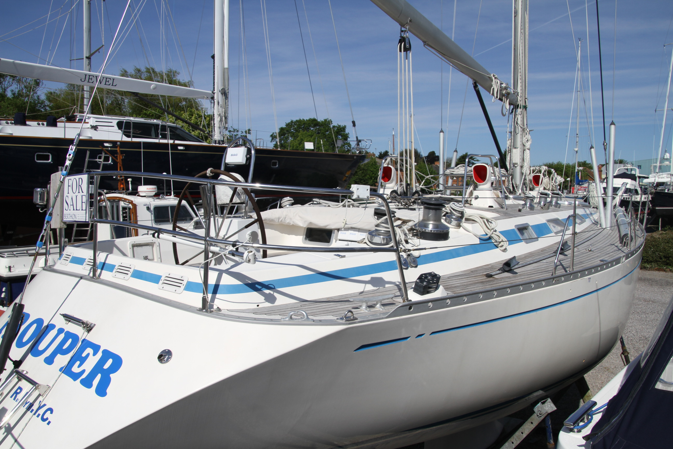 Swan 43-123 Trouper